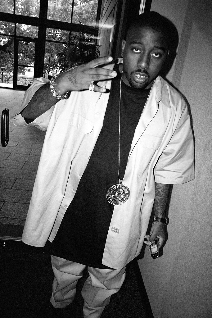 Trae of the Guerilla Mobb, steppin' through Austin.